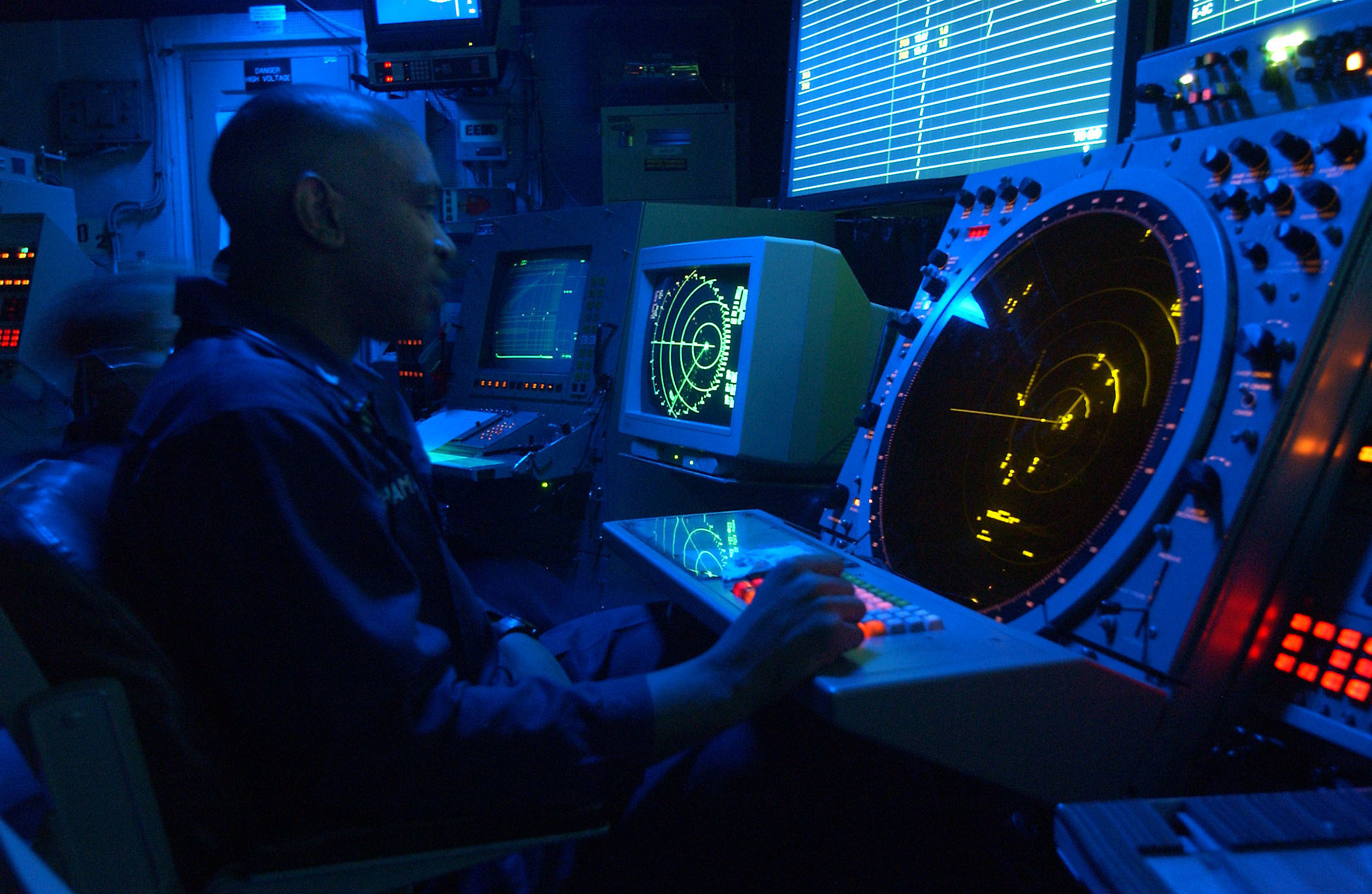 020106-N-1328C-508 Aboard USS Theodore Roosevelt (CVN 71) Jan. 6, 2002 -- In the Carrier Air Traffic Control Center (CATCC), Air Traffic Controller 2nd Class Odarious Chambers from Andalusia, Ala., mans the approach radar watch aboard USS Theodore Roosevelt. The aircraft carrier is operating in support of Operation Enduring Freedom. U.S. Navy photo by Chief Photographer's Mate Eric A. Clement. (RELEASED)